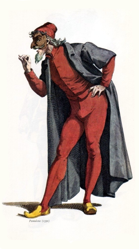 Pantalone year 1550